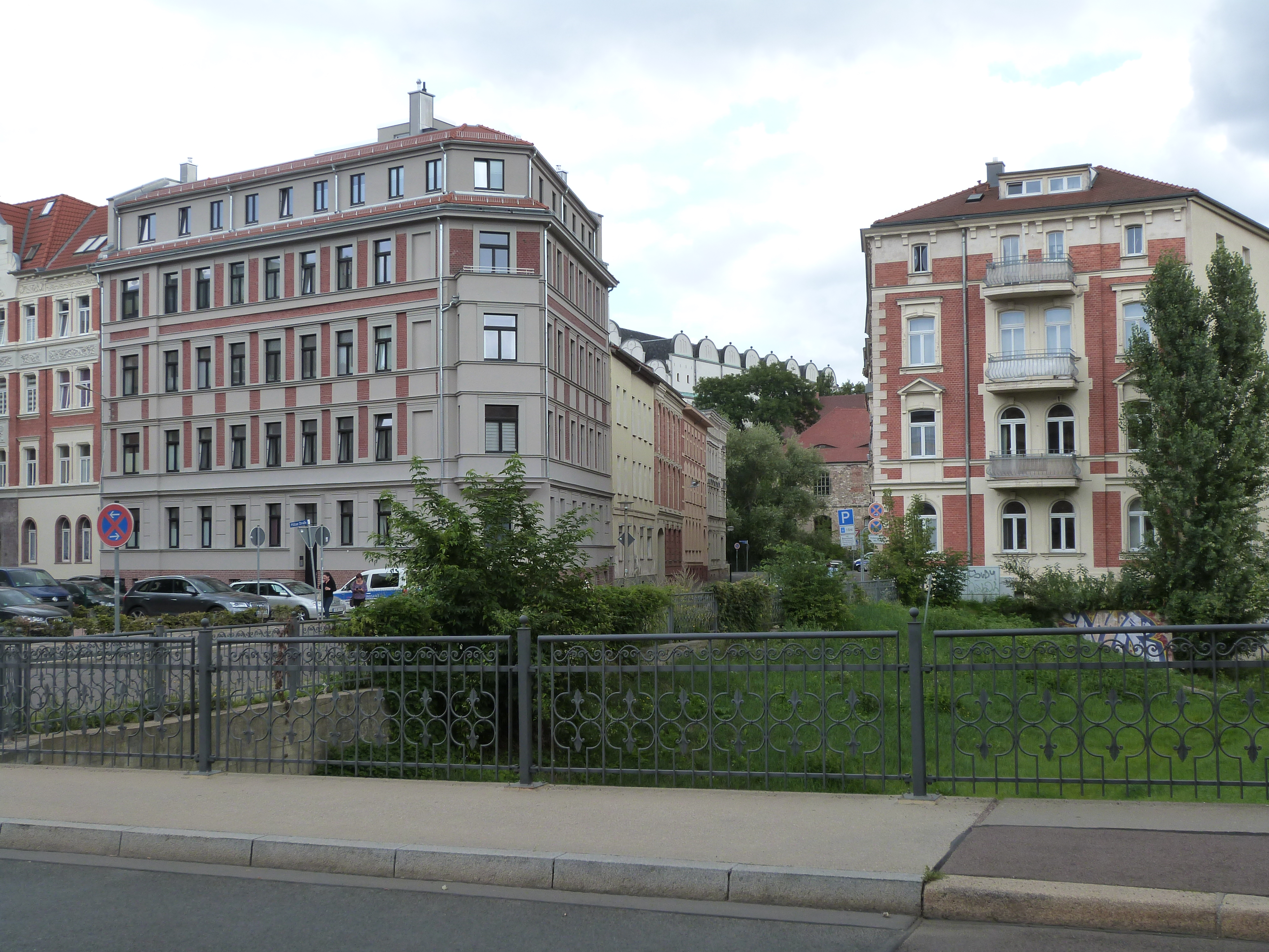 Bridge Ankerbrücke in the Ankerstrasse, Halle (Saale)